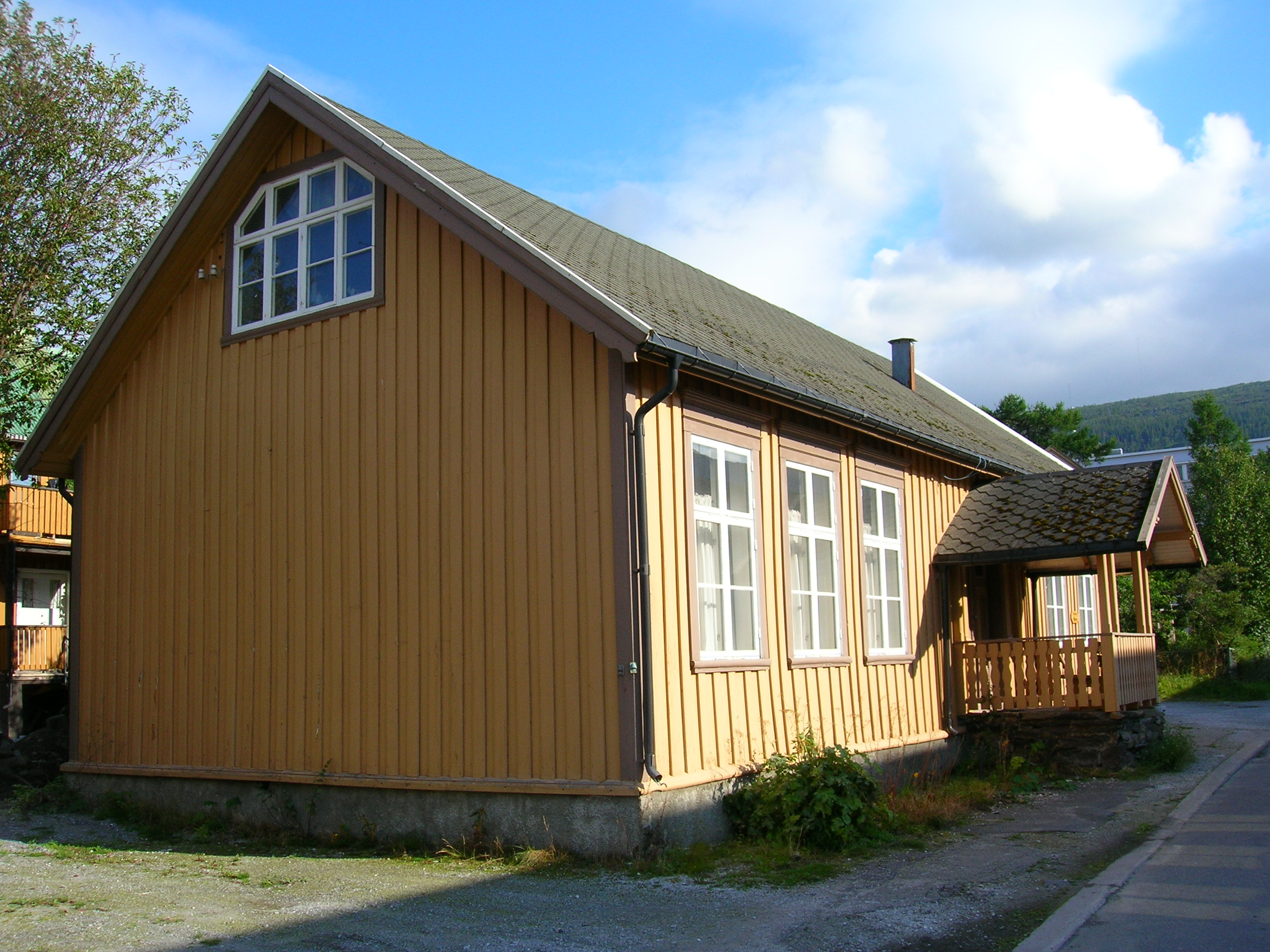 The old city council of the city municipality of Mo (1923-1963), used before Mo was merged with the municipality of Nord-Rana and parts of Sør-Rana and Hemnes into the new municipality of Rana in 1964. Rana municipality, county of Nordland, Norway. Photo 14 August 2007 with a Nikon Coolpix 5600 5,1 Megapixel camera.